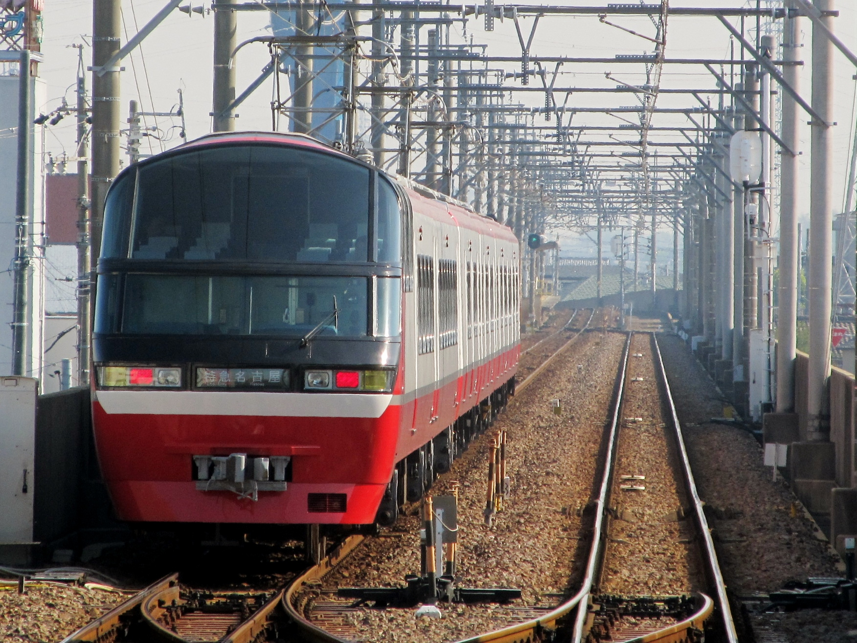 Meitetsu refurbished 1200 series First Class Cars. Limited Express bound for Nagoya.